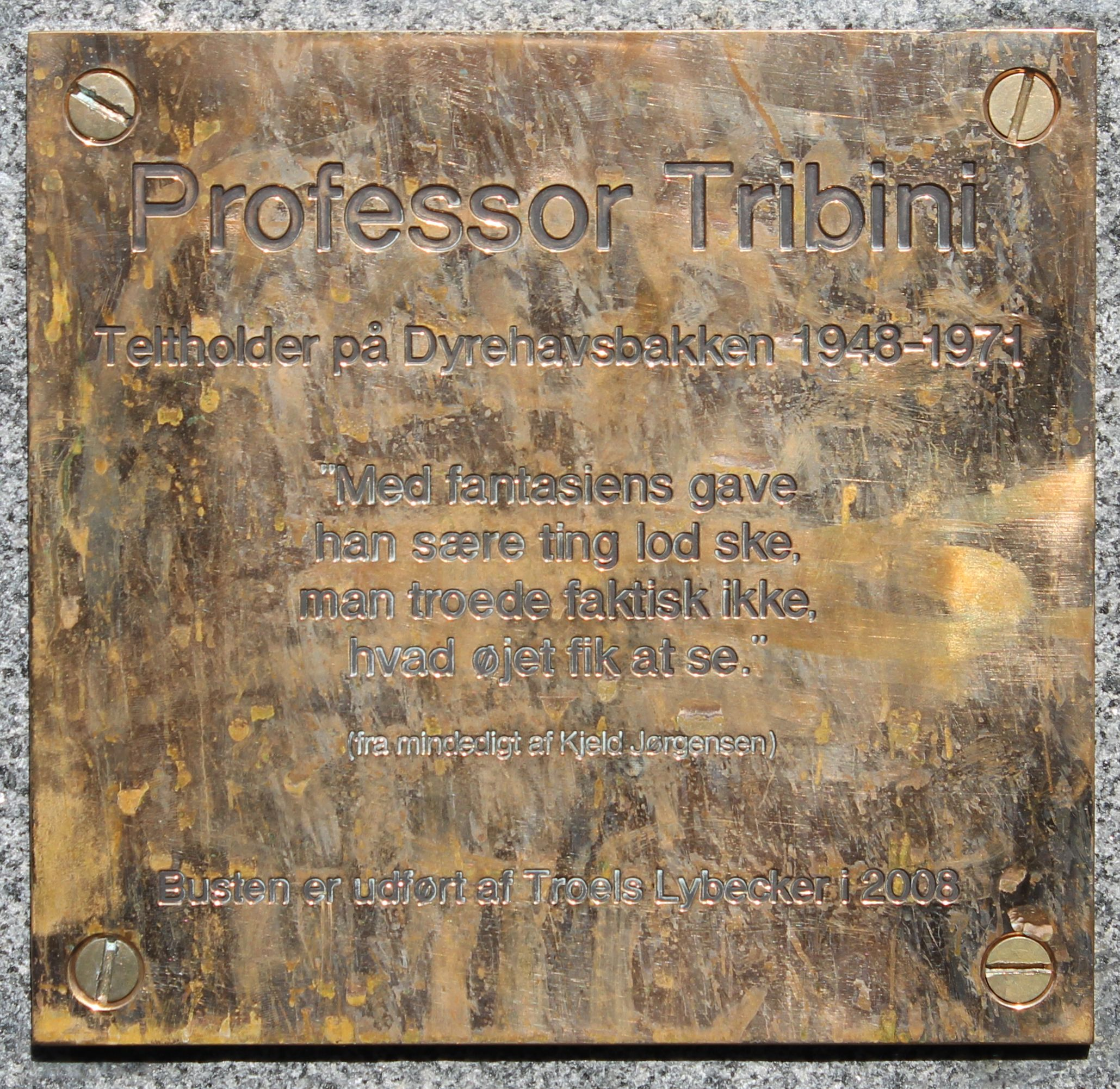 Plaque of bust of Professor Tribini in Dyrehavsbakken (Bakken), København